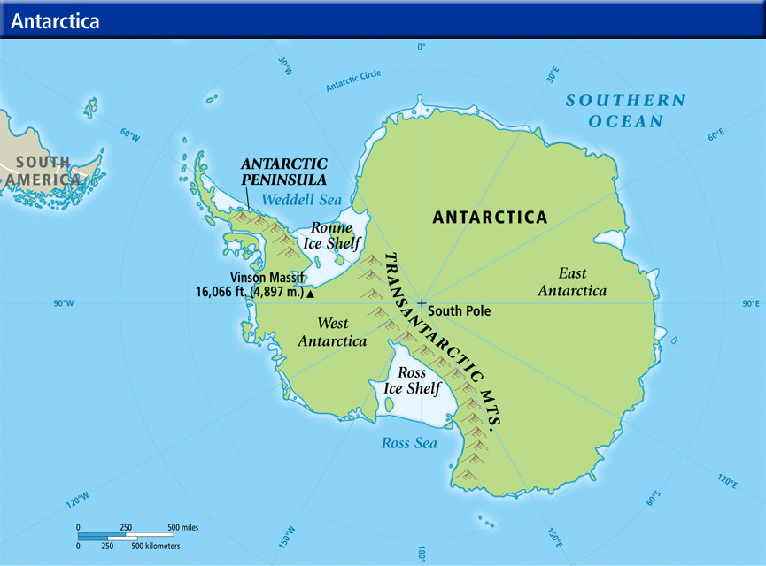 Map of Antarctica showing main features of East and West Antarctica